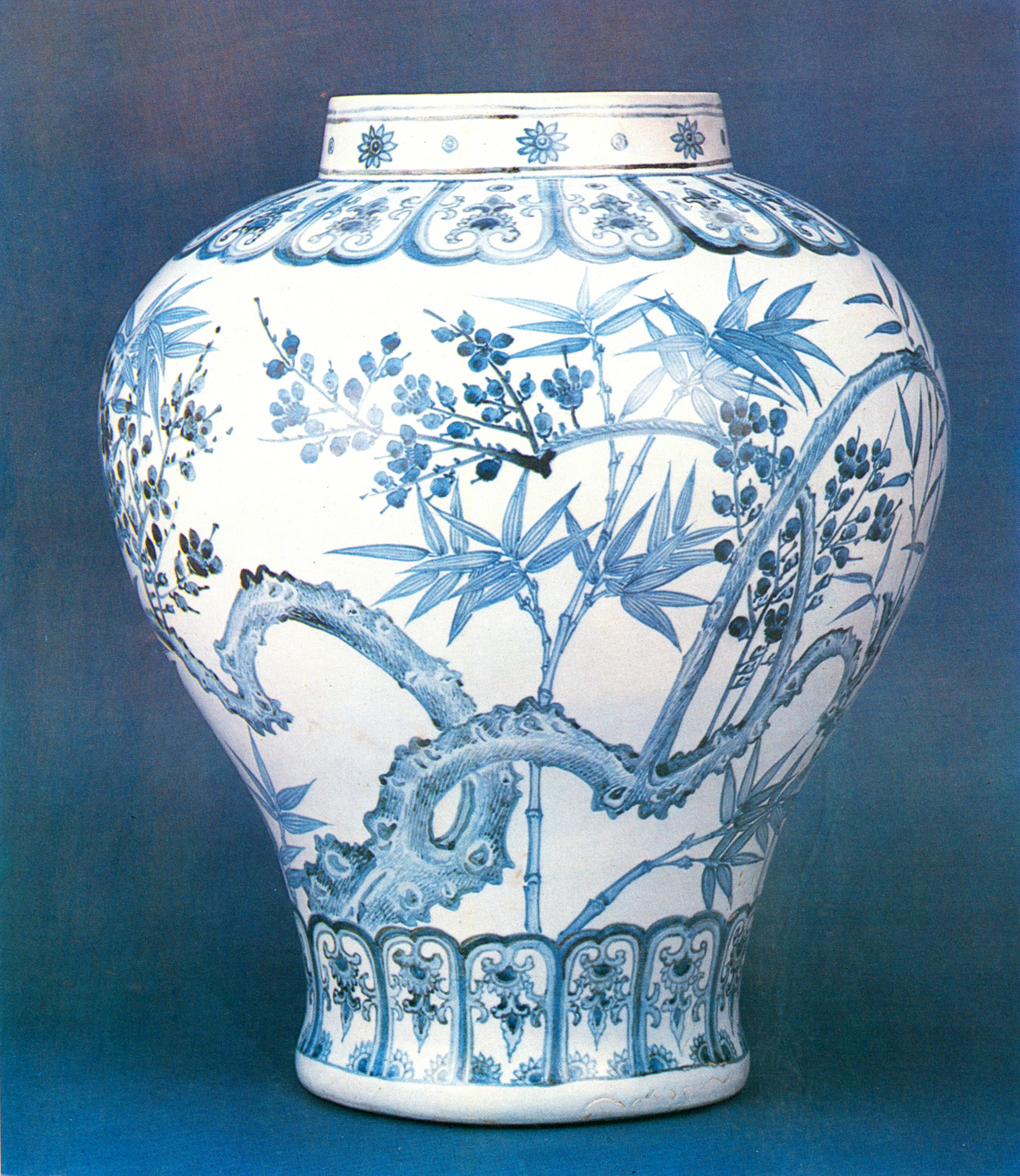 Joseon porcelain pot to draw pattern of plum blossom, and bamboos with blue pigment. Qinghua porcelain jar, H. 41 cm, D. 18,2 cm. Estimated to be produced in Gwangju, in the mid- 15th century. National Treasure No. 219. 60-16 55 road, Leeum, Samsung Museum of Art ( Hannam ) in Itaewon, Yongsan-gu, Seoul. 5th century, Joseon dynasty Korea. Blue and white porcelain jar with plum and bamboo design in underglaze cobalt-blue. Hoam Art Museum. Leuum, Samsung Museum of Art. National Treasure N° 219